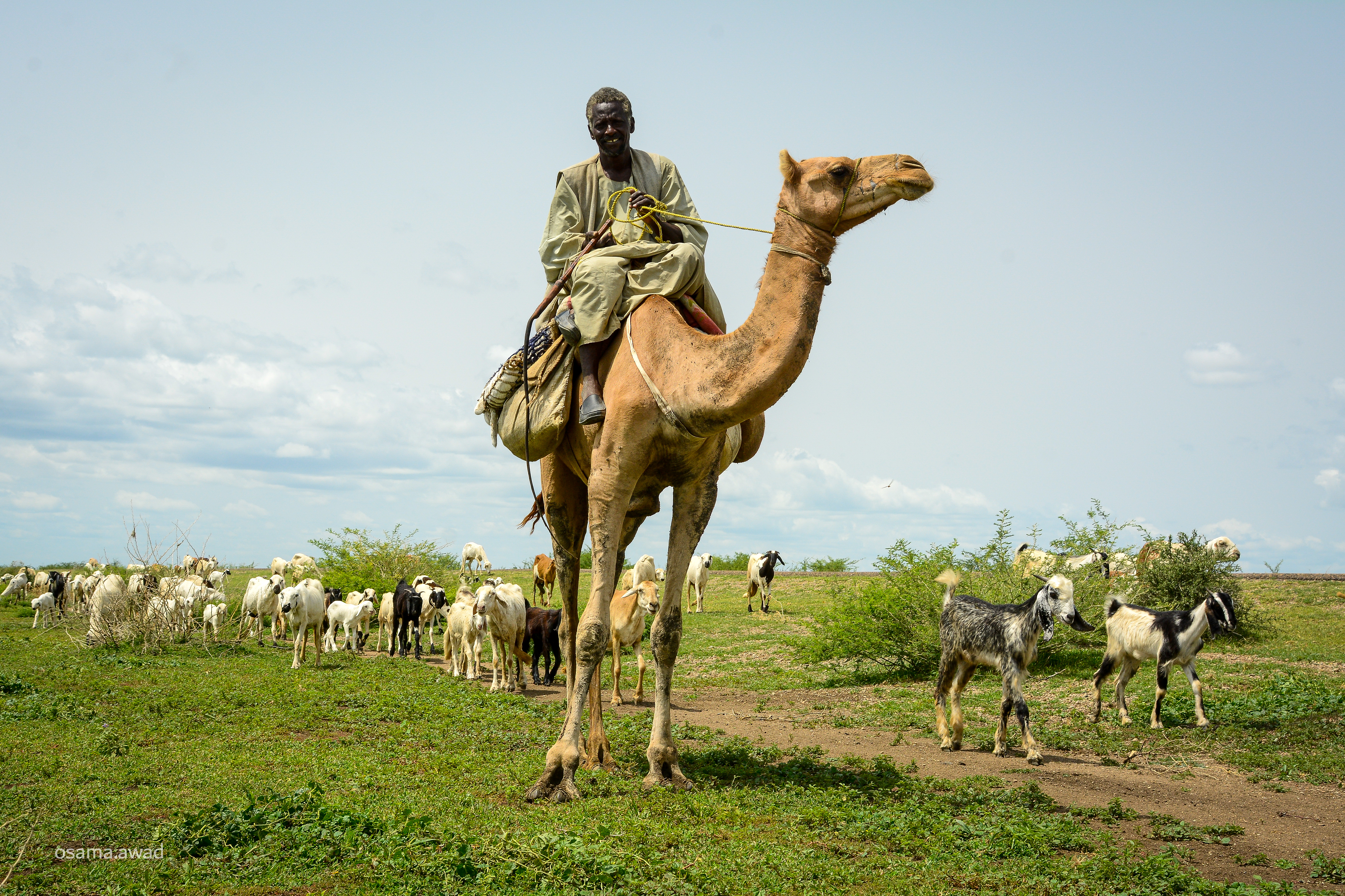 ولاية سنار This is an image with the theme "Africa on the Move or Transport" from: Sudan